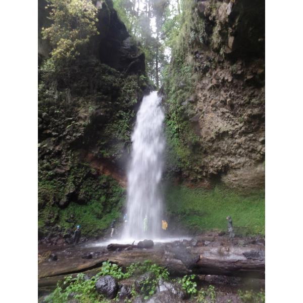 Pequeña cascada